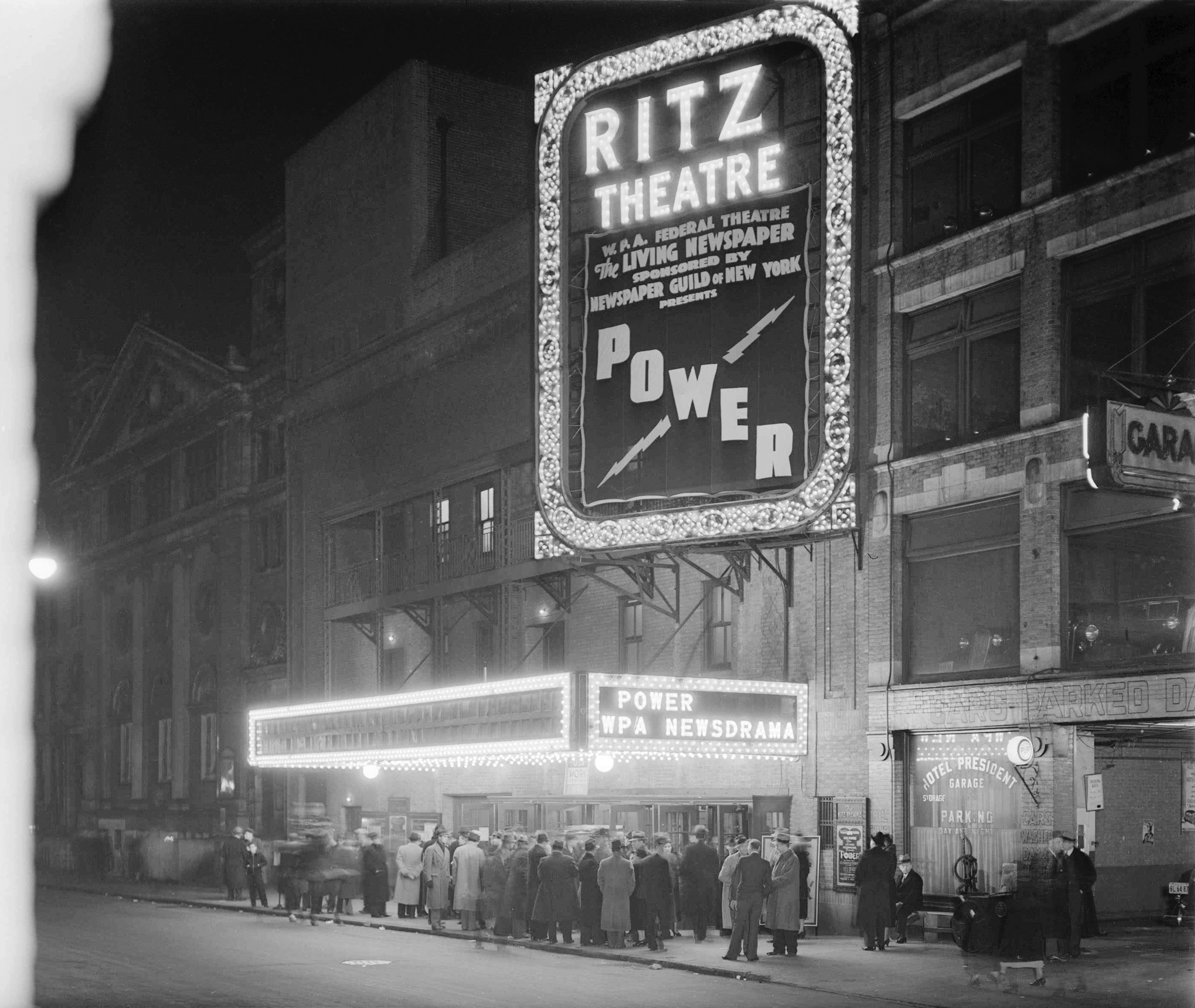 Photograph of the marquee and exterior of the Ritz Theatre during the run of the Federal Theatre Project production of Power (The Living Newspaper, February–July 1937)